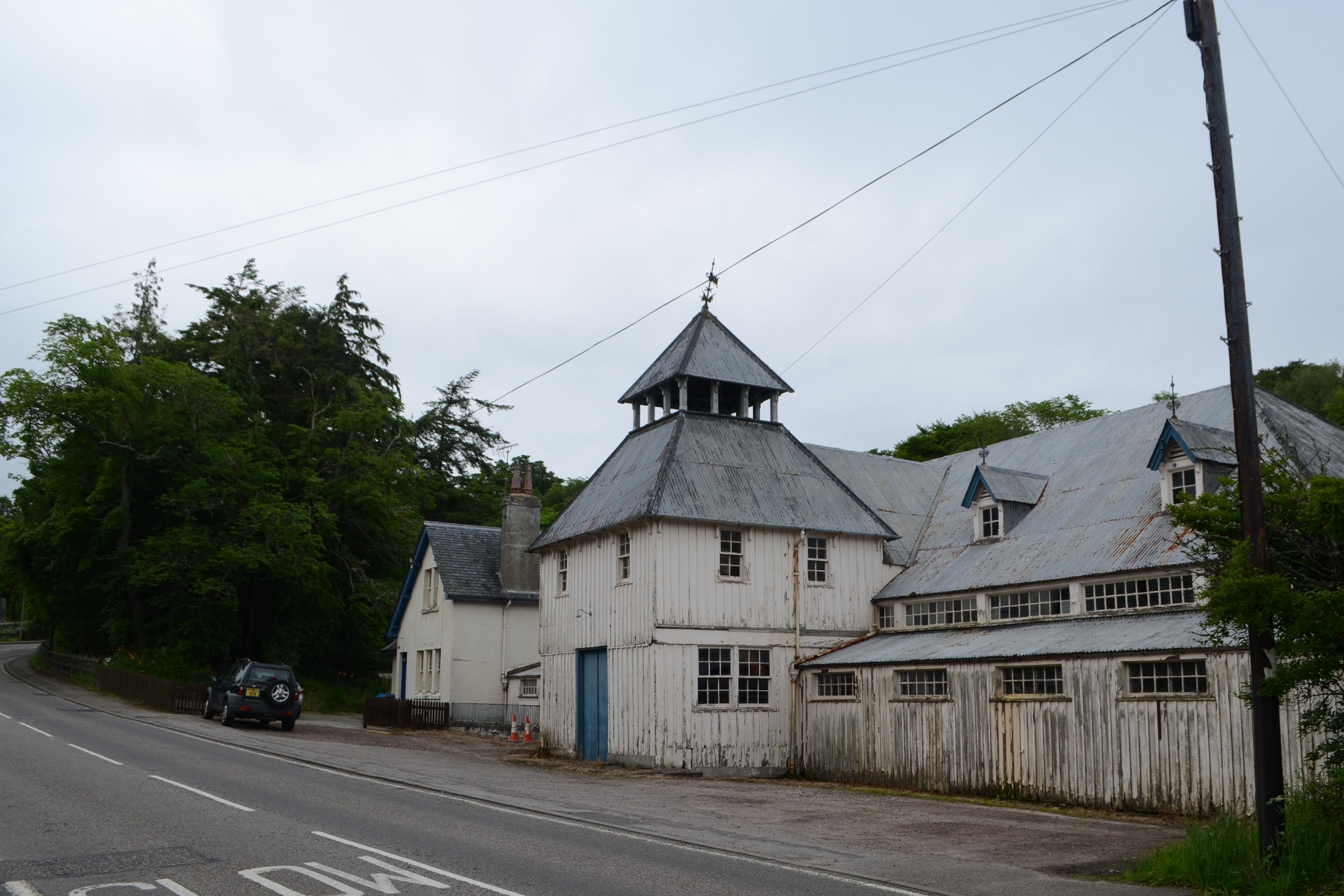 Former Drill Hall in Golspie, Scotland